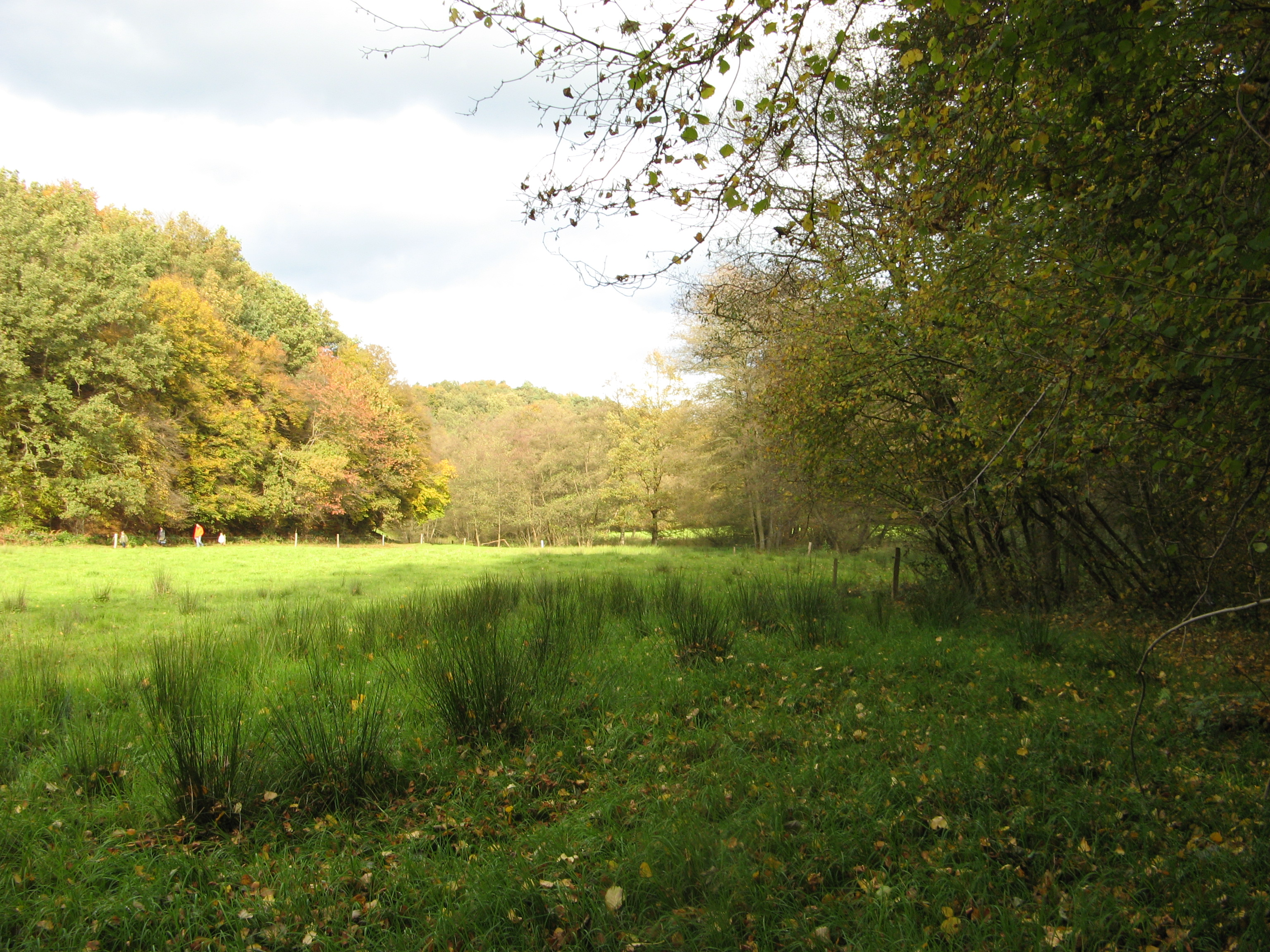 Naafbachtal, Valley of Naaf, near Overath, NRW, Germany